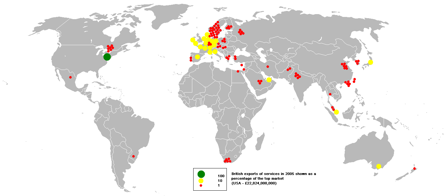 This bubble map shows the global distribution of UK exports of services in 2005 as a percentage of the top market (USA - £22,824,000,000). This map is consistent with incomplete set of data too as long as the top market is known. It resolves the accessibility issues faced by colour-coded maps that may not be properly rendered in old computer screens. Data was extracted on 25th June 2007 from Based on :Image:BlankMap-World.png